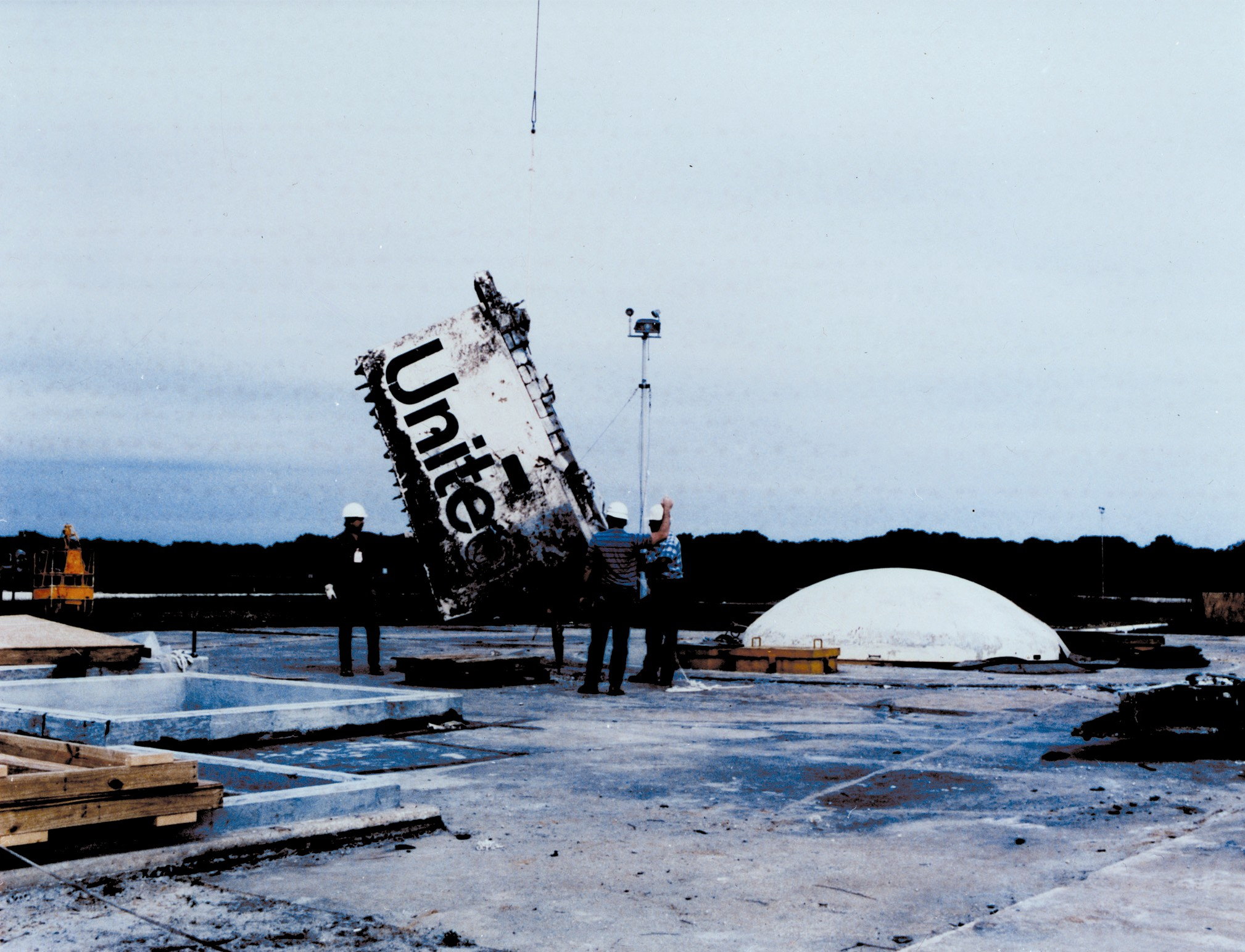 On January 28, 1986, the Space Shuttle Challenger and her seven-member crew were lost when a ruptured O-ring in the right Solid Rocket Booster caused an explosion soon after launch. After investigators concluded their report on the accident, the debris was moved from Kennedy Space Center's Complex 39 to permanent storage in two secure abandoned Minuteman Missile silos at Complex 31 on the Cape Canaveral Air Force Station.